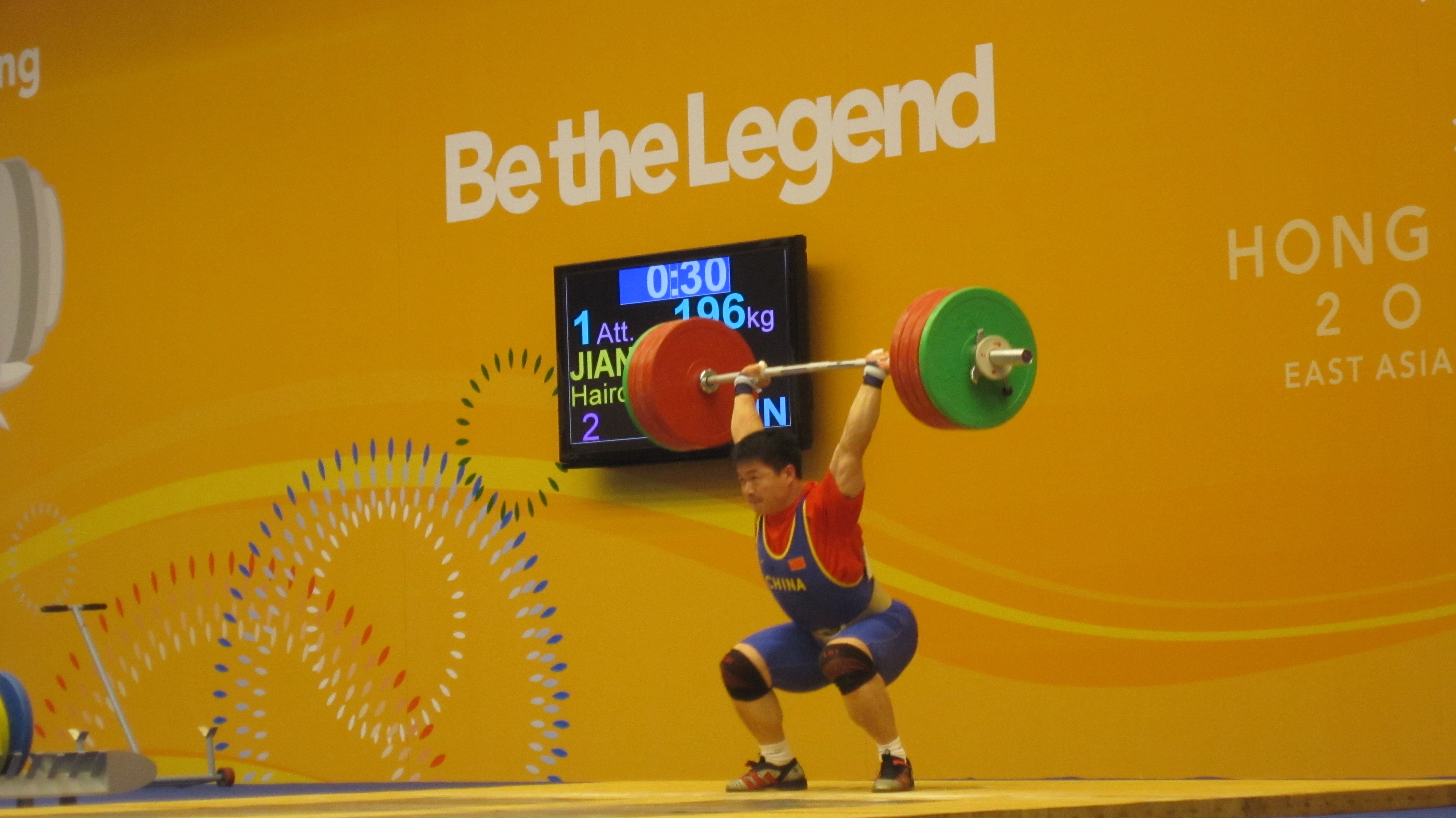 Hong Kong East Asian Games